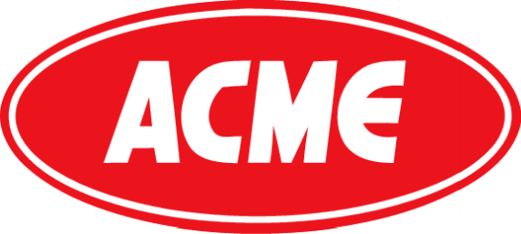 Logo for ACME Markets from 1985 to 1998